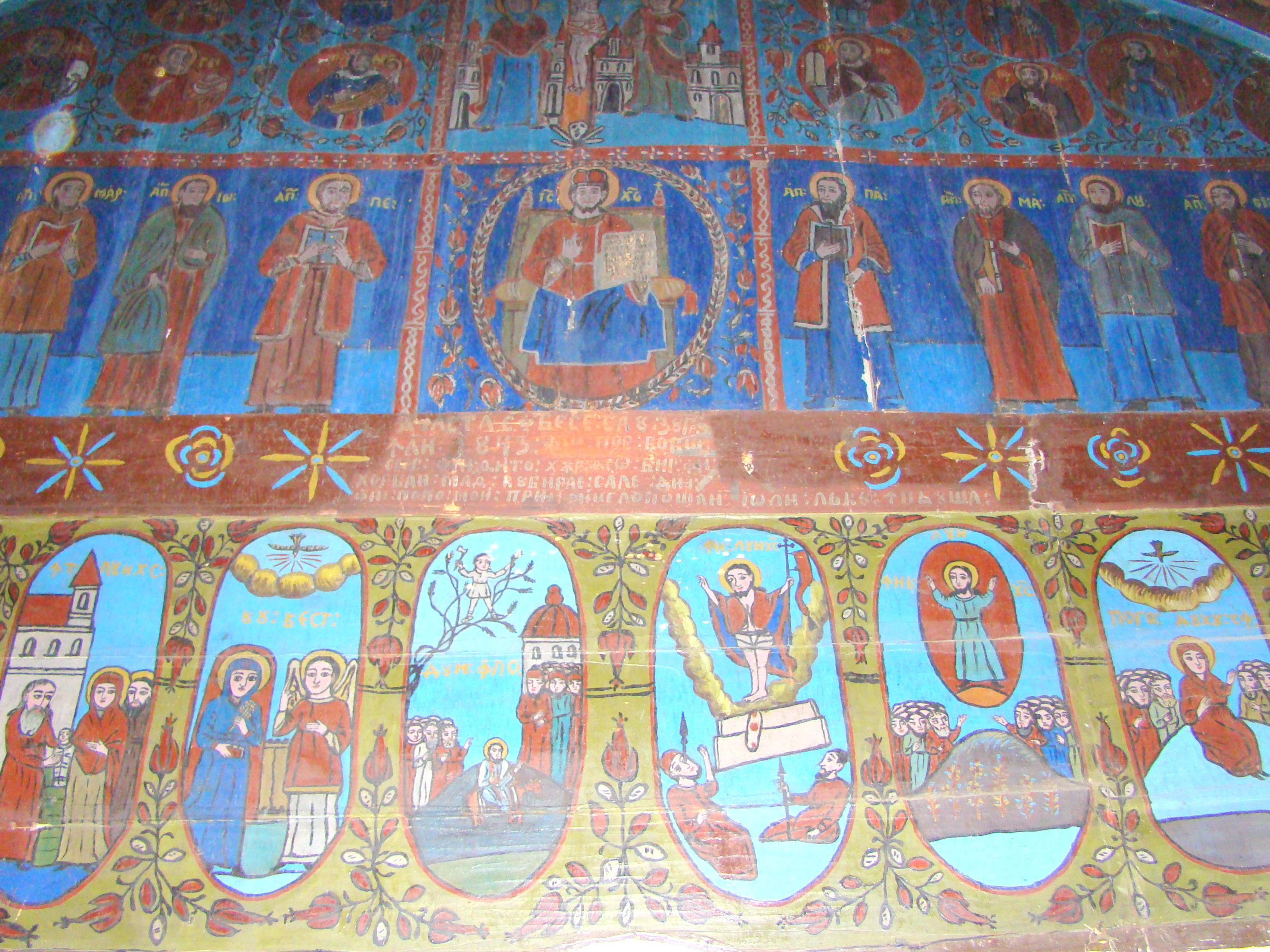 Archangels' church in Inand, Bihor county, Romania